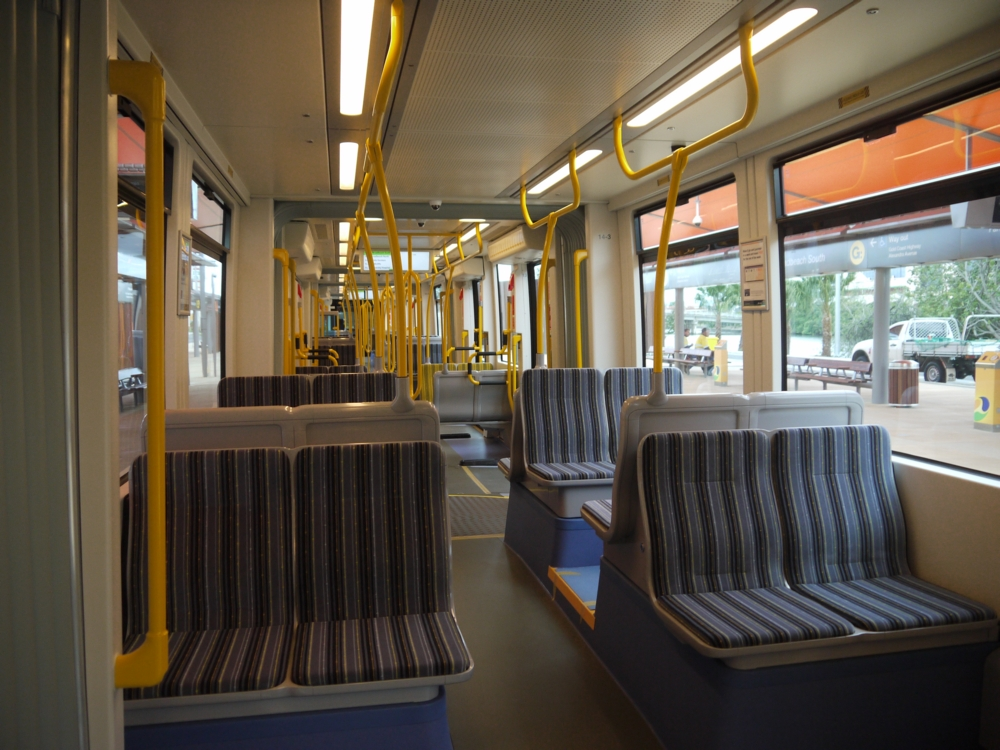 Interior of Flexity 2 tram on the Gold Coast